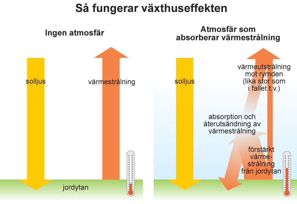 Simple description of the greenhouse effect.